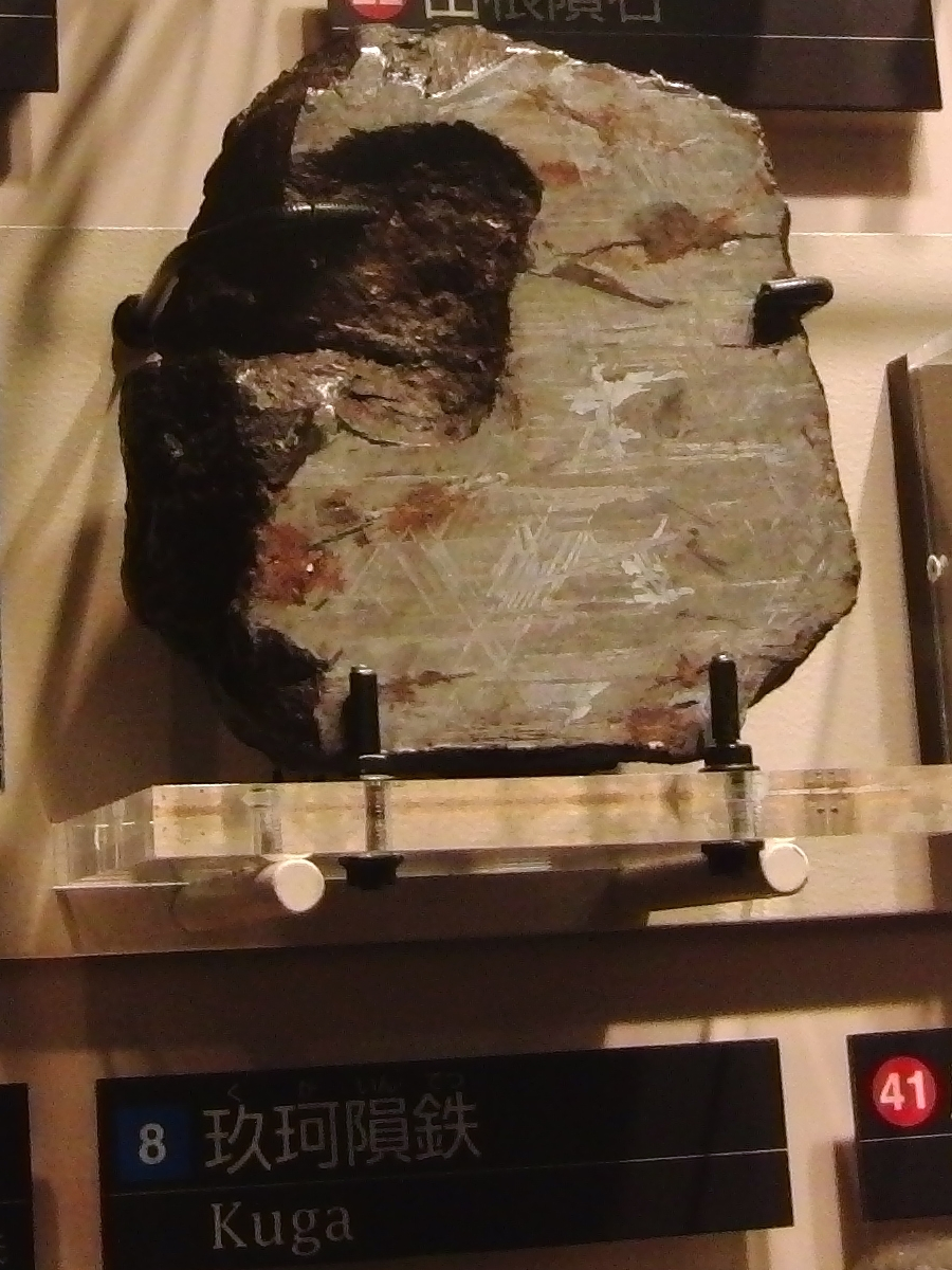 Kuga Meteorite. Exhibit in the National Museum of Nature and Science, Tokyo, Japan.